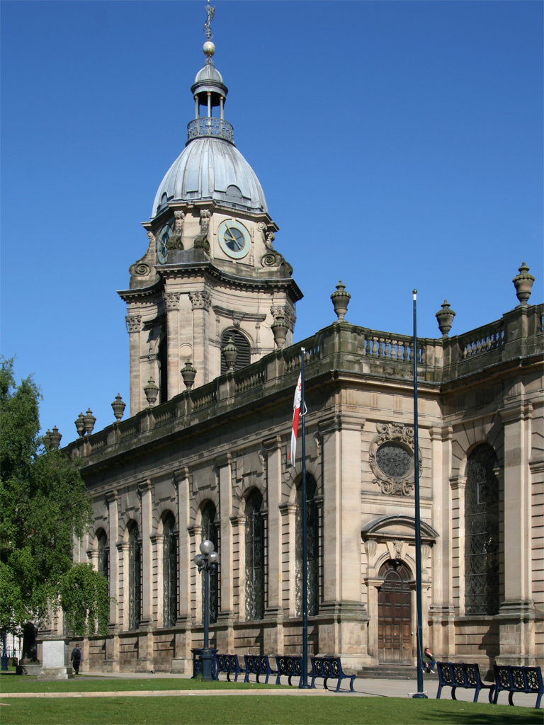 St. Philip's Cathedral, Birmingham, England.